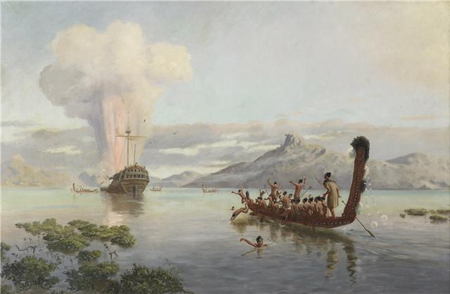 Boyd Massacre, 1889